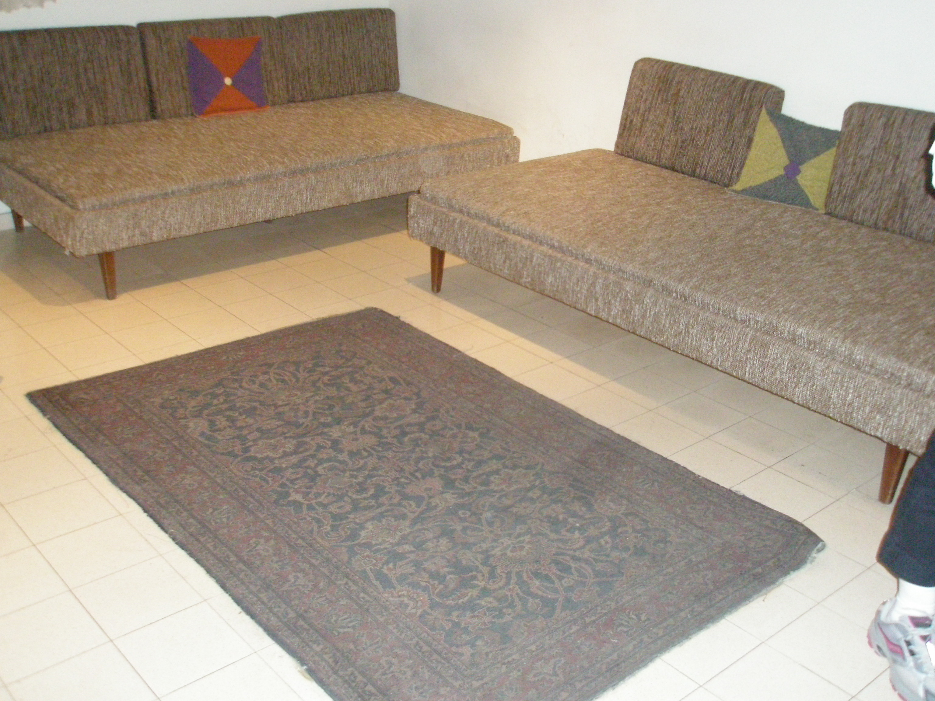 Menachem and Aliza Begin's living room, at The Menachem Begin Heritage Foundation, Jerusalem